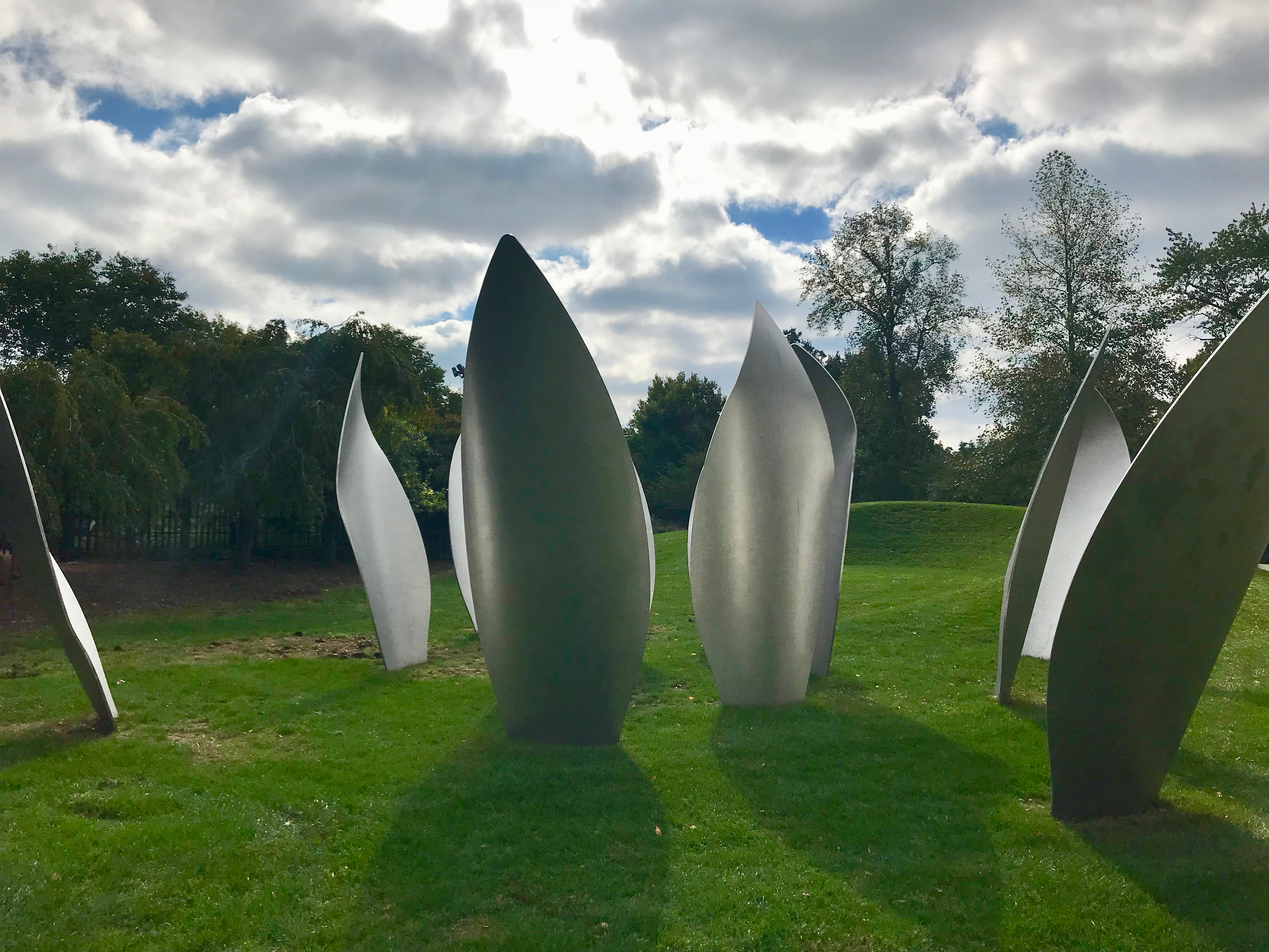 "Skylanding" by Yoko Ono (2016) in Jackson Park, Chicago.